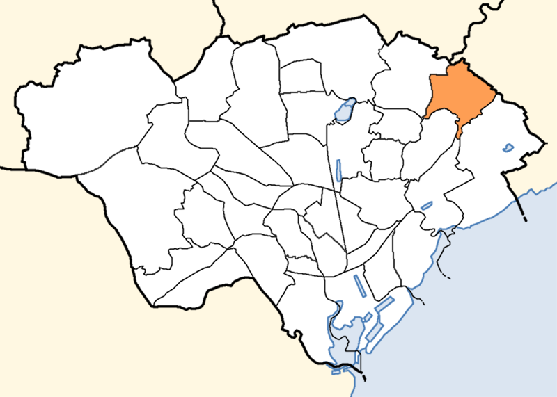 Location map of the community of Old St Mellons in Cardiff, Wales. Originally part of a larger St Mellons community, it was divided in 1996, with the western half becoming Pontprennau.